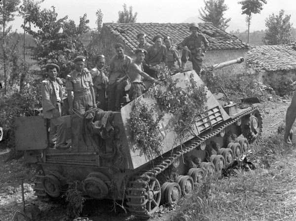 Personnel of the Westminster Regiment, 5th Canadian Armoured Brigade, examining a self-propelled tank-destroyer "Nashorn" knocked out by PIAT gun, near Pontecorvo, Italy, 26 May 1944 (original ID as Hummel is wrong, long barrel and muzzle brake identifies it as Nashorn)